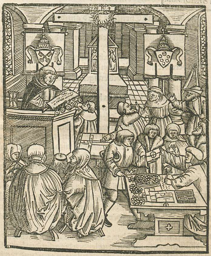 Woodcut of indulgence selling in a church from title page of On Aplas von Rom kan man wol selig werden (One Can Be Saved Without the Indulgence of Rome)